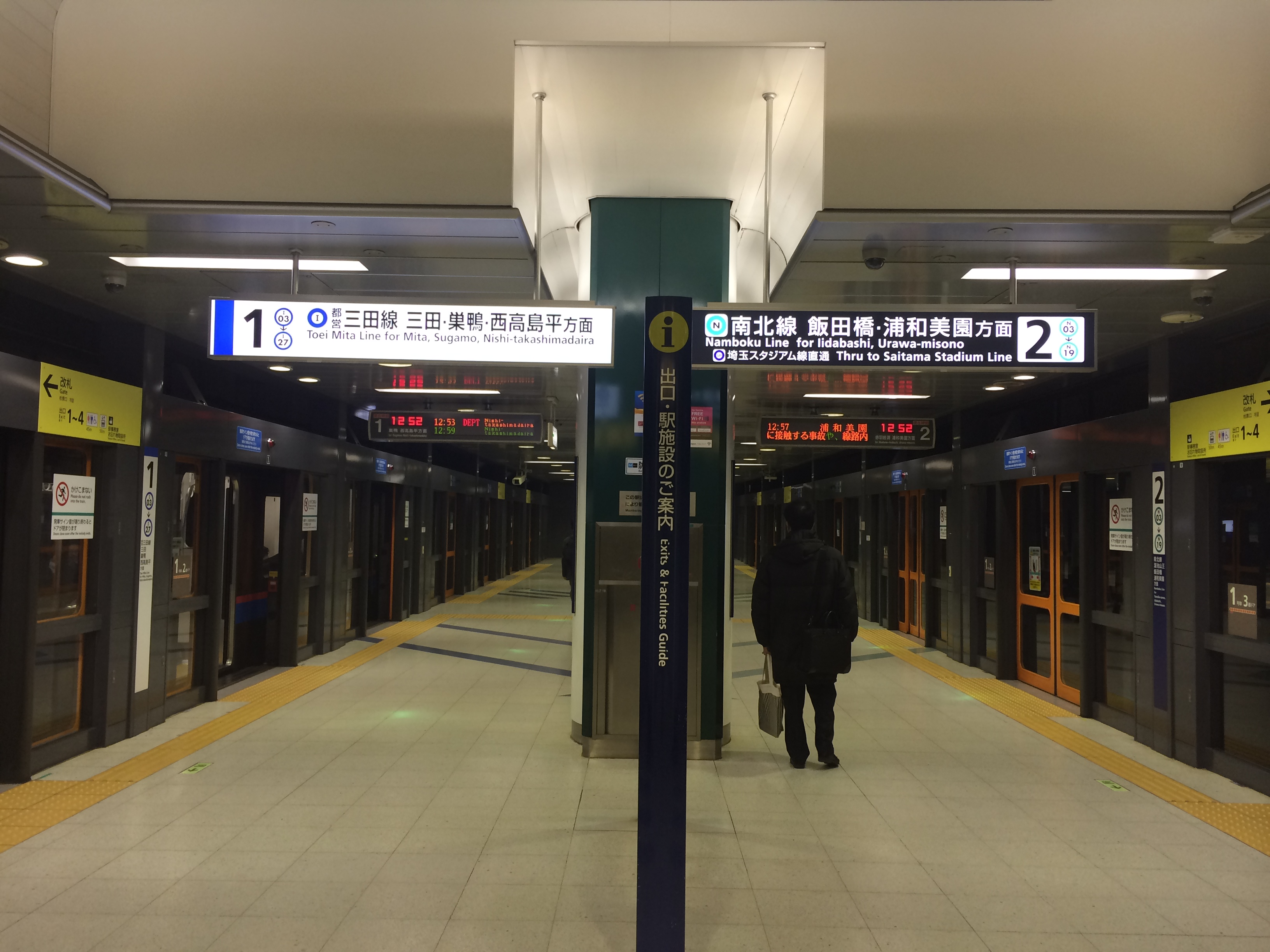 The platforms at Shirokane-takanawa Station in Tokyo